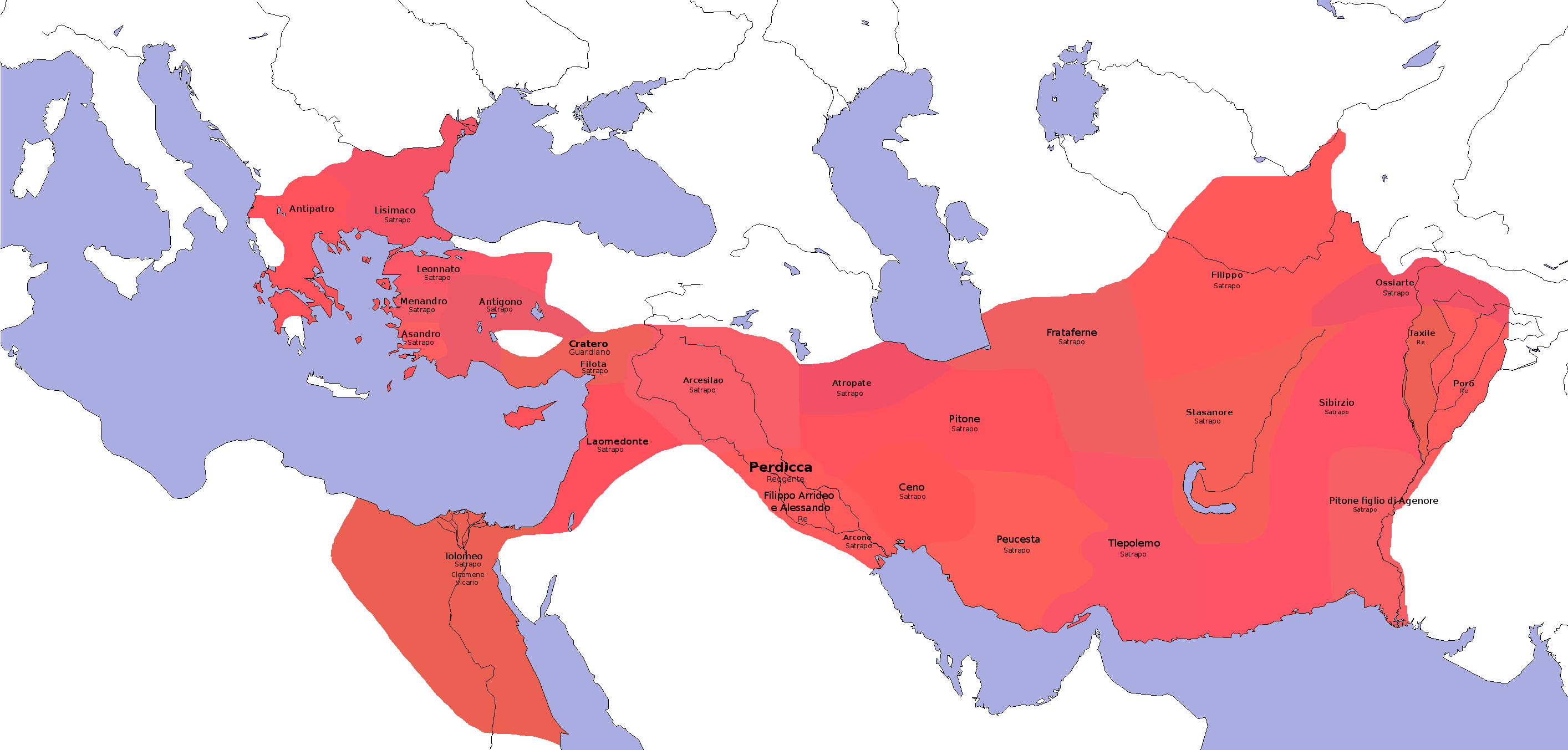 The distribution of satrapies in the Macedonian empire after the Settlement in Babylon summer/fall 323 BC Image:Hellenistic world blank.png used as base map